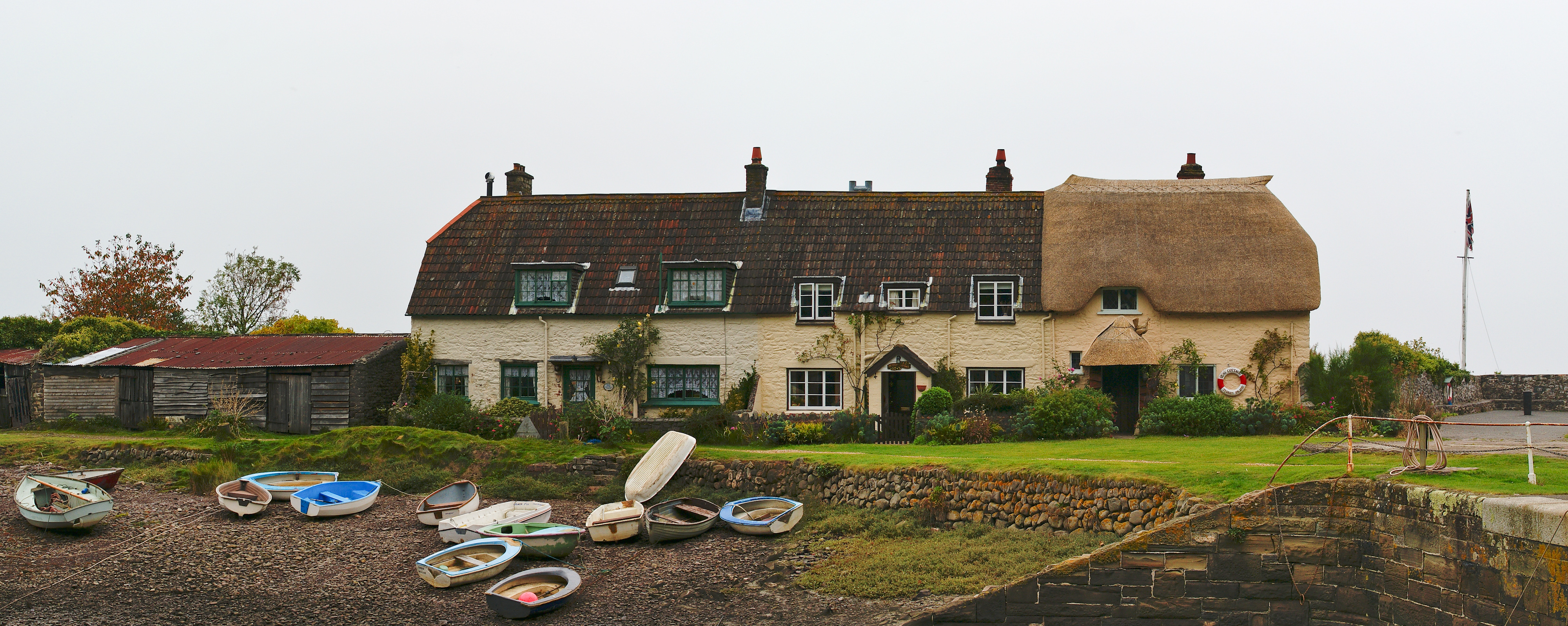 A stitch of the fishermens cottages at Porlock Weir Harbour in Somerset, UK.